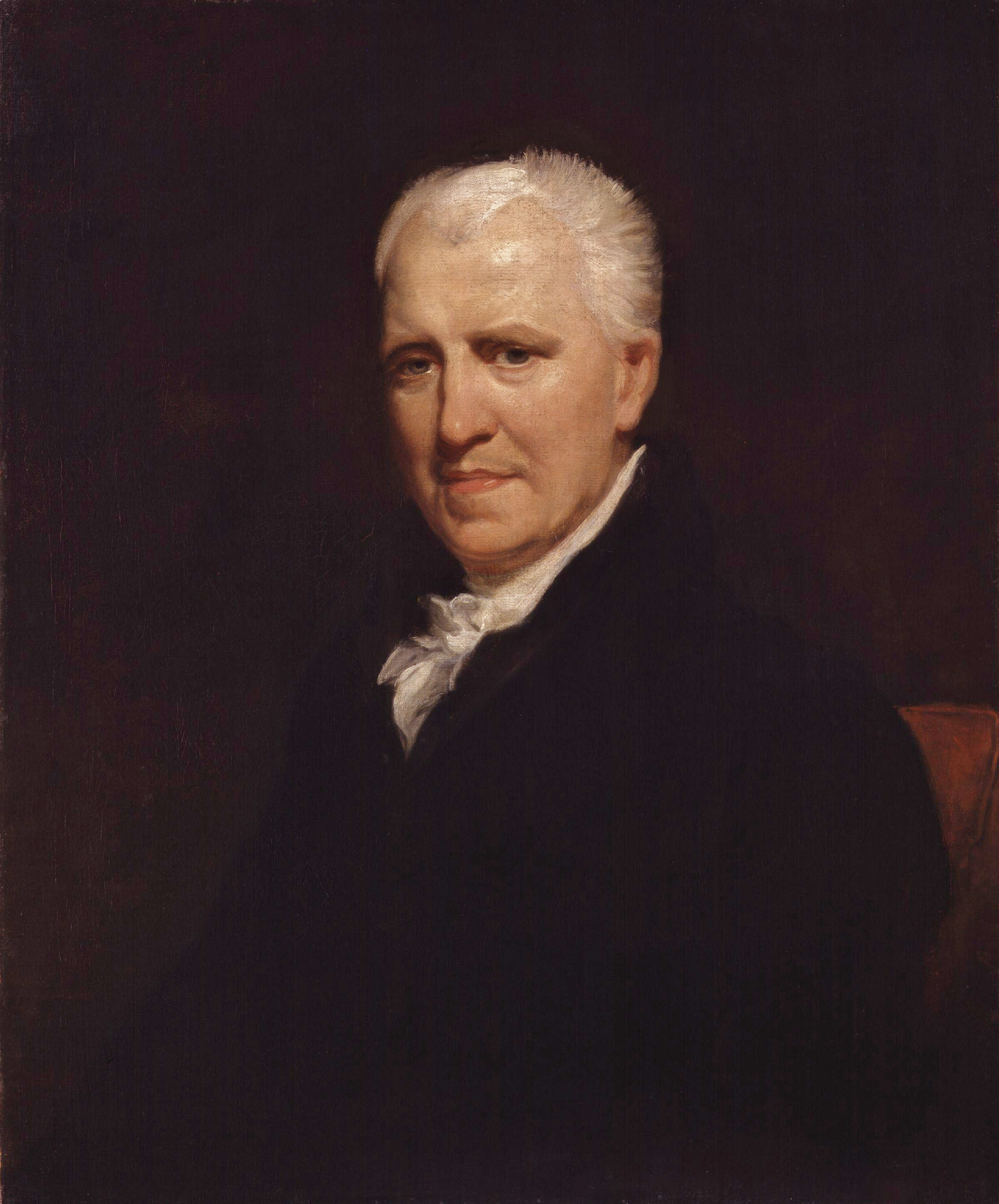 George Crabbe, by Henry William Pickersgill (died 1875). All images in this batch have been confirmed as author died before 1939 according to the official death date listed by the NPG.